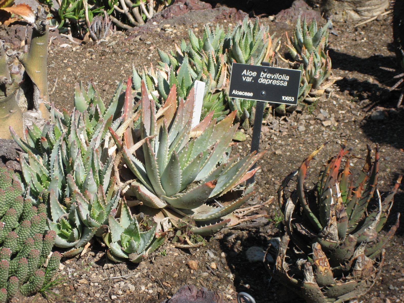 Photographed at Huntington Gardens (Los Angeles) in March